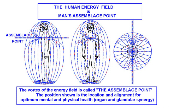 Illustration depicting a hypothesized "energy field" of unspecified orgone energy surrounding a human and a related "assemblage point" where the field converges. This location ostensibly causes maximum health in the subject. This is an example of pseudo-scientific misuse of the well-defined scientific concepts of "energy" and "fields". Original caption: Human Energy field and Man’s Assemblage Point